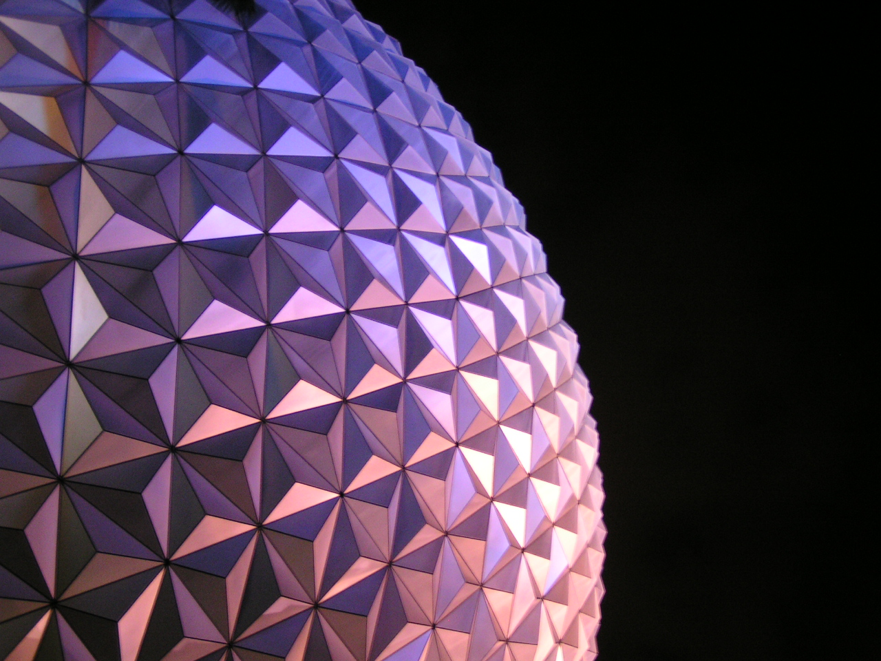 The Epcot sphere at night in Orlando. August 2005